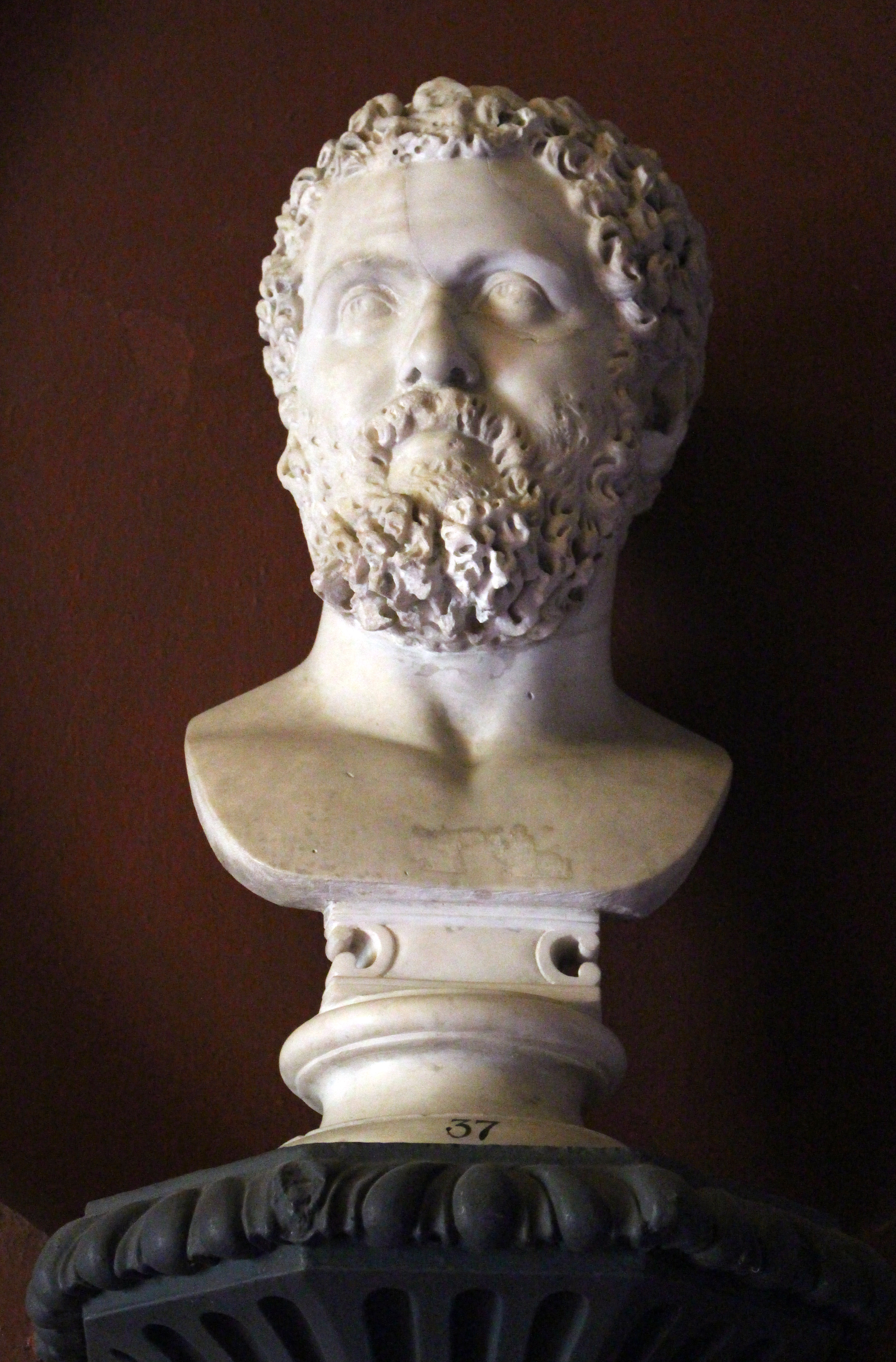 Bust of Emperor Clodius Albinus